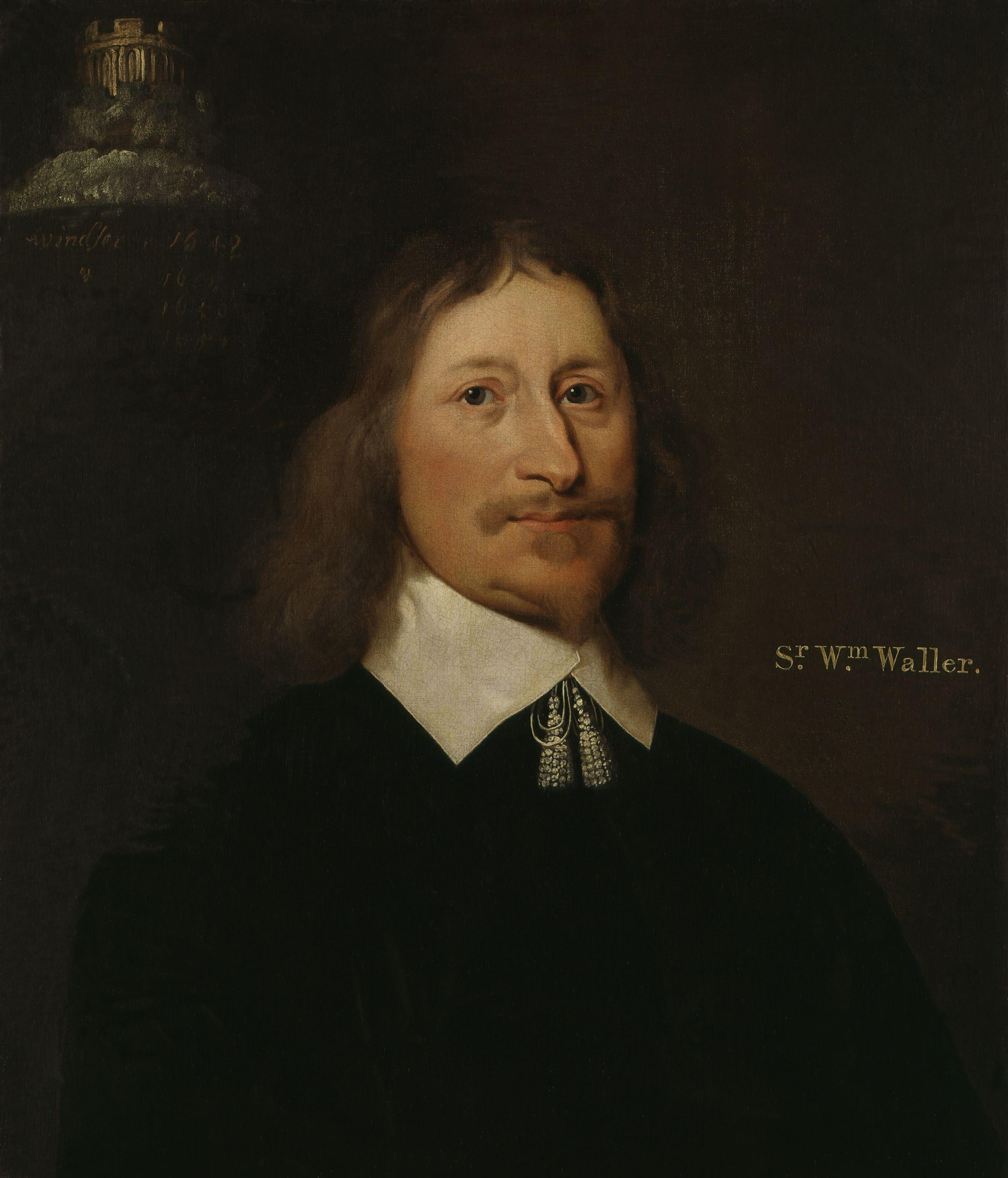 Sir William Waller, by unknown artist. All images in this batch are listed as "unknown author" by the NPG, who is diligent in researching authors, and was donated to the NPG before 1939 according to their website.